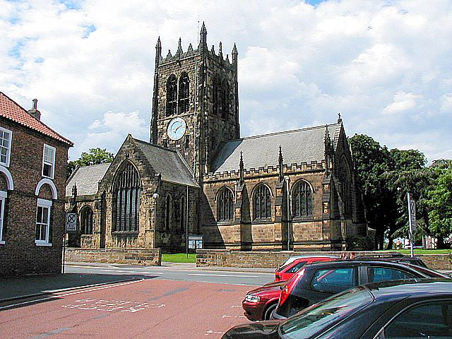 All Saints Church, Northallerton A visit here to find the grave of my great grandfather Albert Lucas proved to be unfruitful as most of the headstones have been removed.